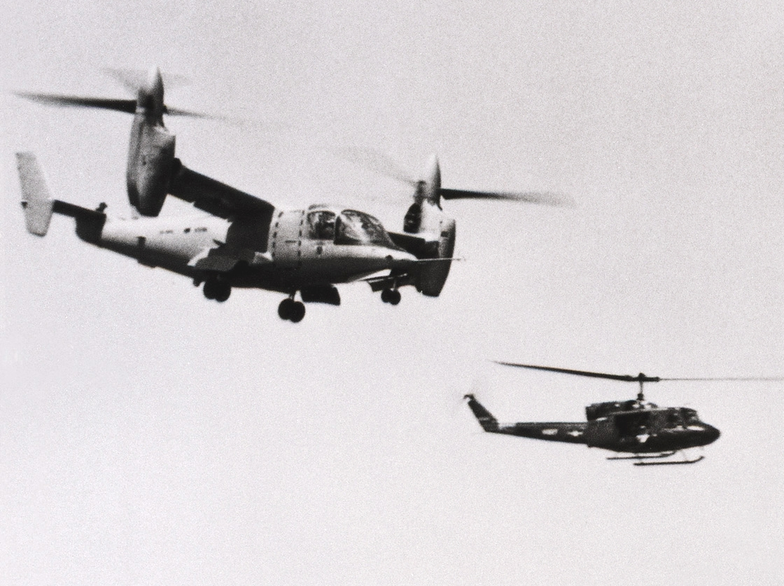 A Bell XV-15 hovers near a U.S. Navy Bell UH-1N Twin Huey during trials aboard the amphibious assault ship USS Tripoli (LPH-10), on 1 August 1983.